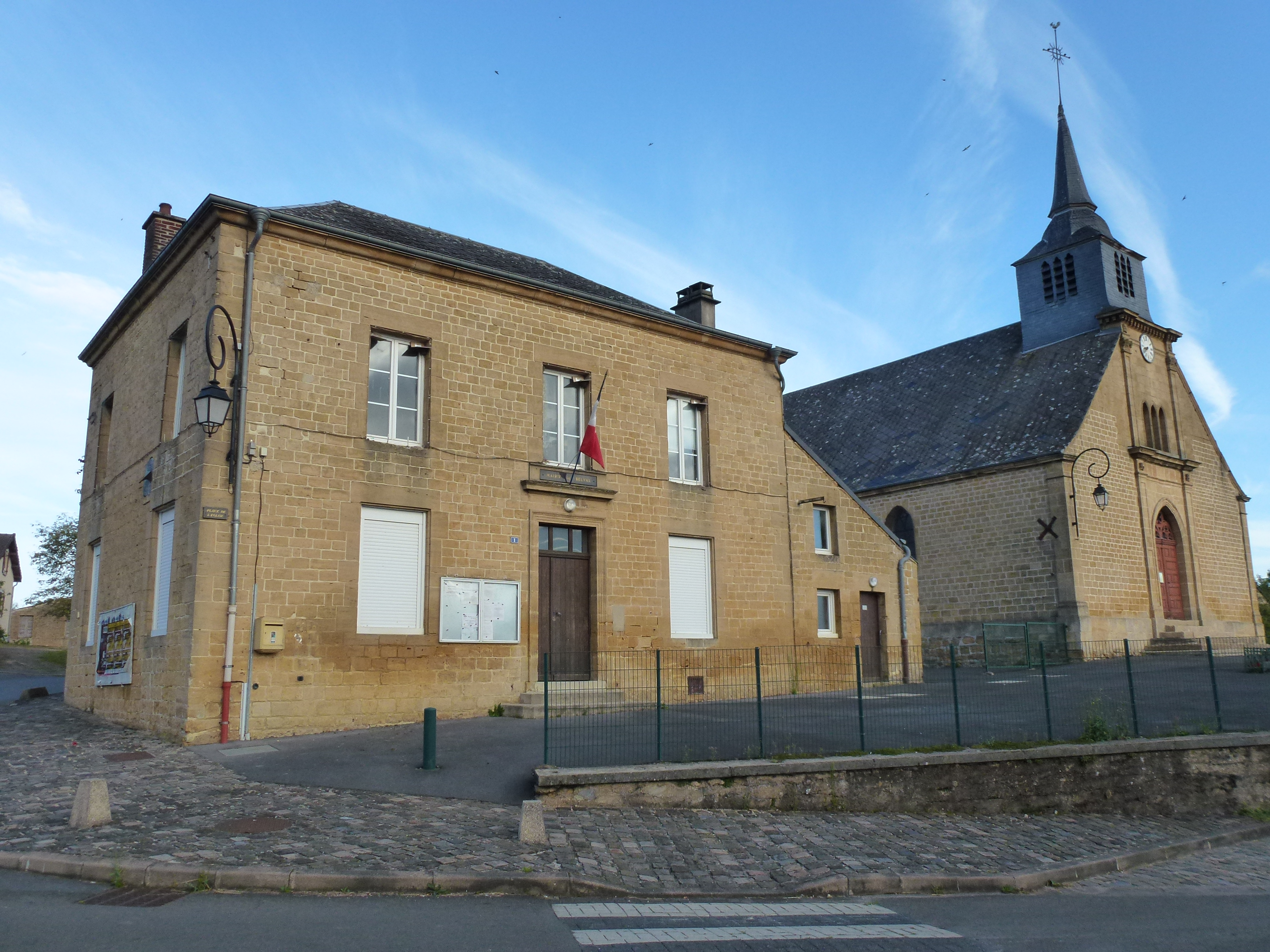 Belval (Ardennes) mairie et église